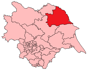 Map of Whitby Parliamentary Constituency 1885-1918, shown within Yorkshire.